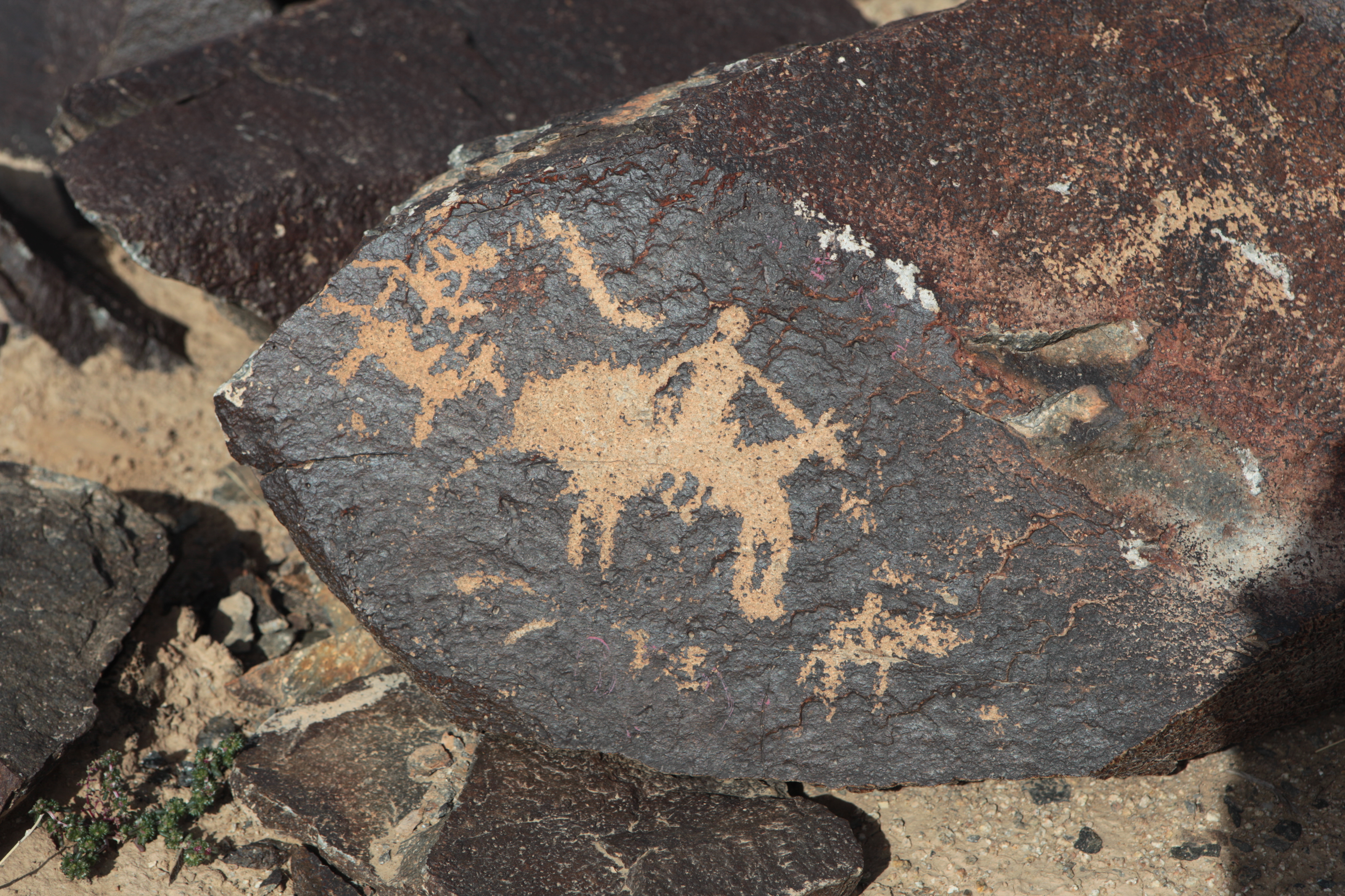 One of the hundreds of rock carving on Mt. Mandela located in the Badain Jaran Desert.